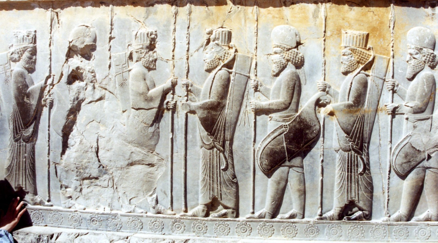 South relief detail 100 columns palace Picture taken by myself in persepolis, Iran April 2006